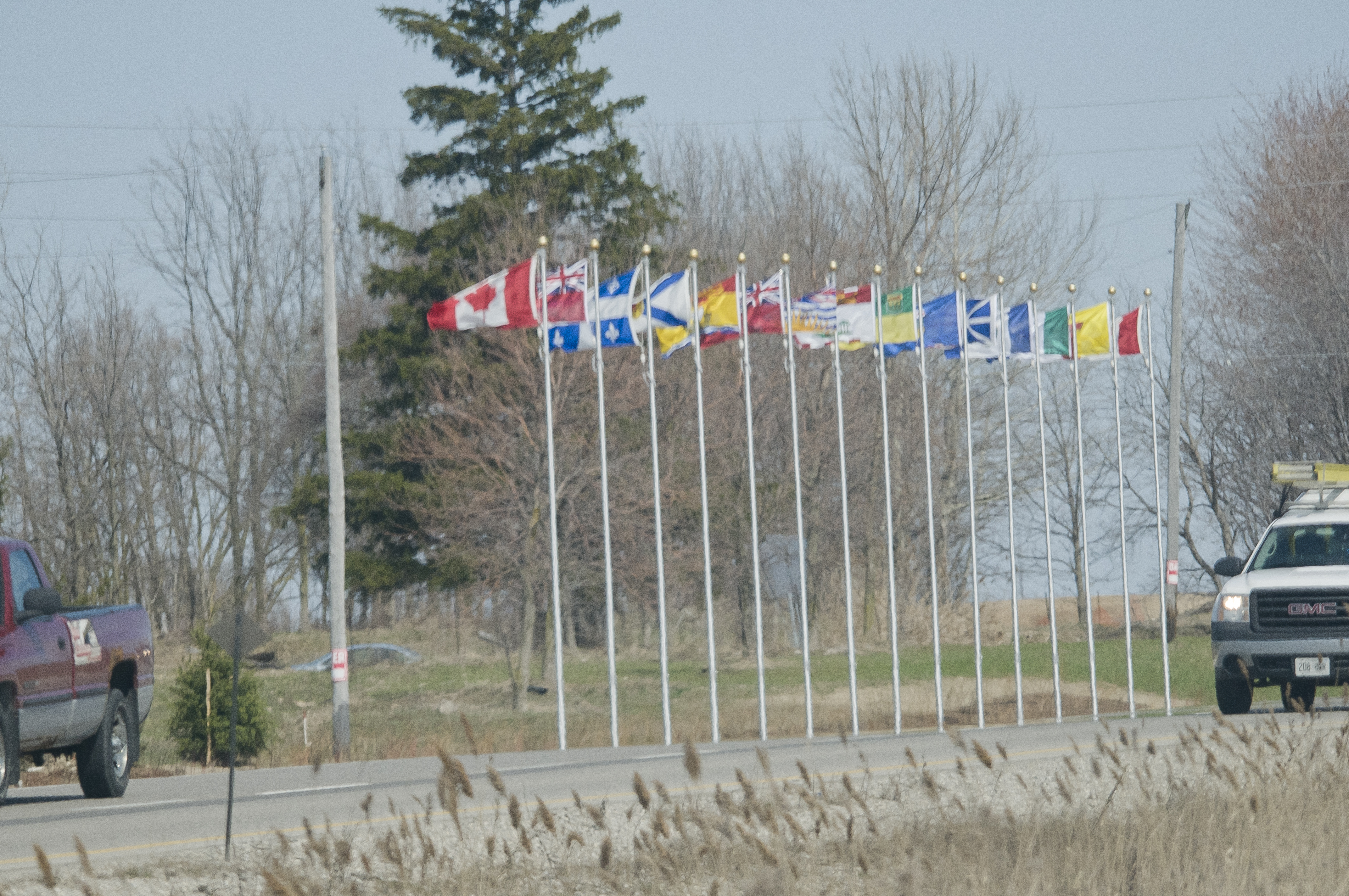 A series of Flagpoles along the Veterans Memorial Parkway in London, Ontario.